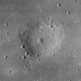 Milichius Pi lunar dome, west of Milichius, on the moon.